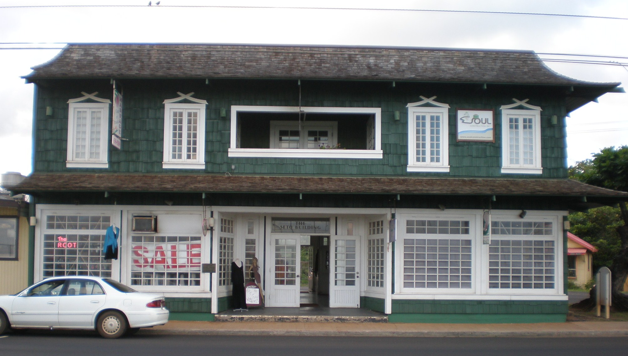 Seto Building, 4-1435 Kuhio Highway, Kapaʻa, Kauai, on National Register of Historic Places